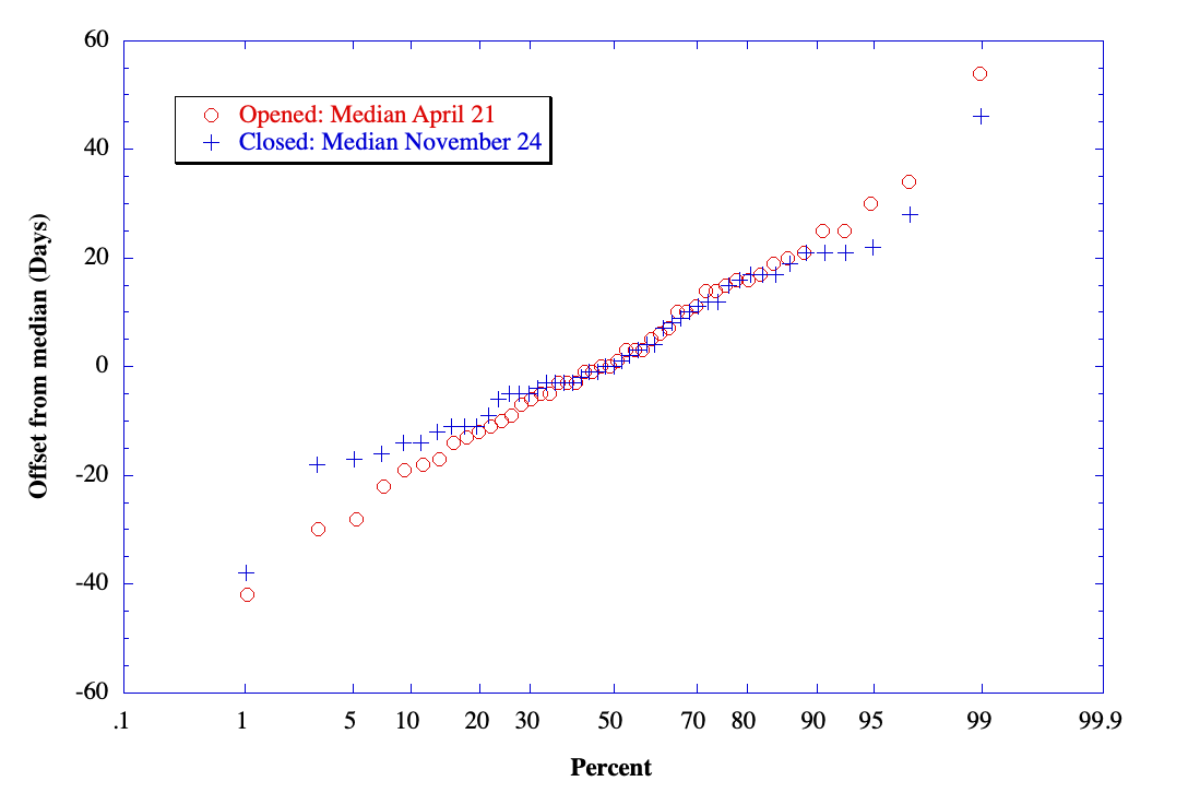 A Q–Q plot for Washington State Route 20 (North Cascades Highway) first opening/final closing dates. Data are from fall 1972 to fall 2014 inclusive.[1] I ignored the winter of 1976-1977 when the highway did not close. A normal distribution would be a straight line in this graph.